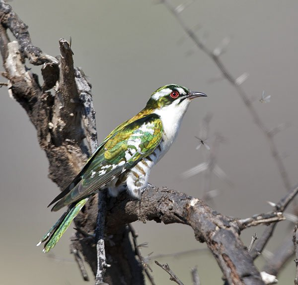 Diederik Cuckoo attracted by emerging termites